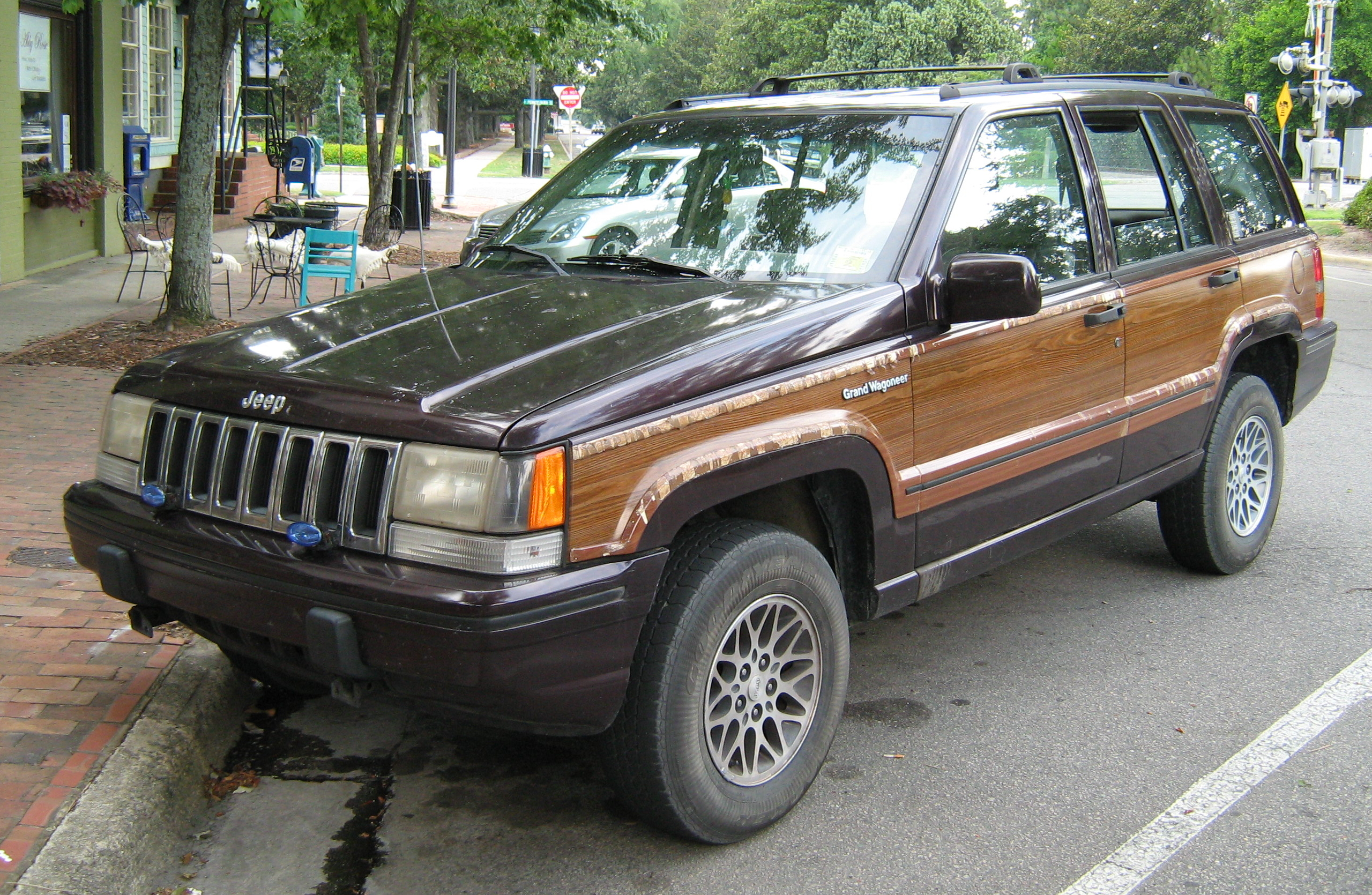 1993 Jeep Grand Wagoneer finished in Black Cherry (dark red) with standard woodgrain body trim (front view). Note: the fog lamps are not factory original.